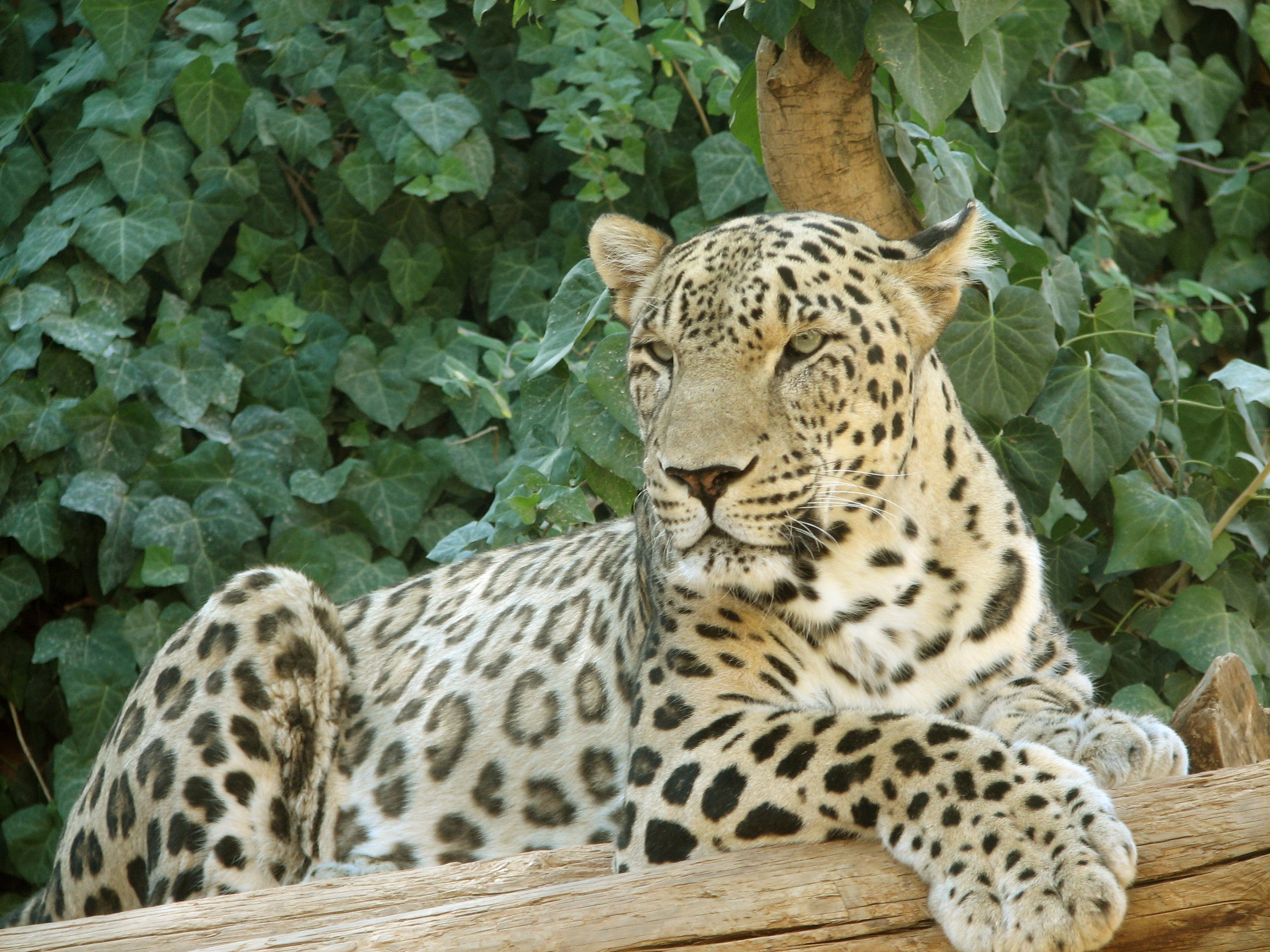 Persian Leopard sitting.